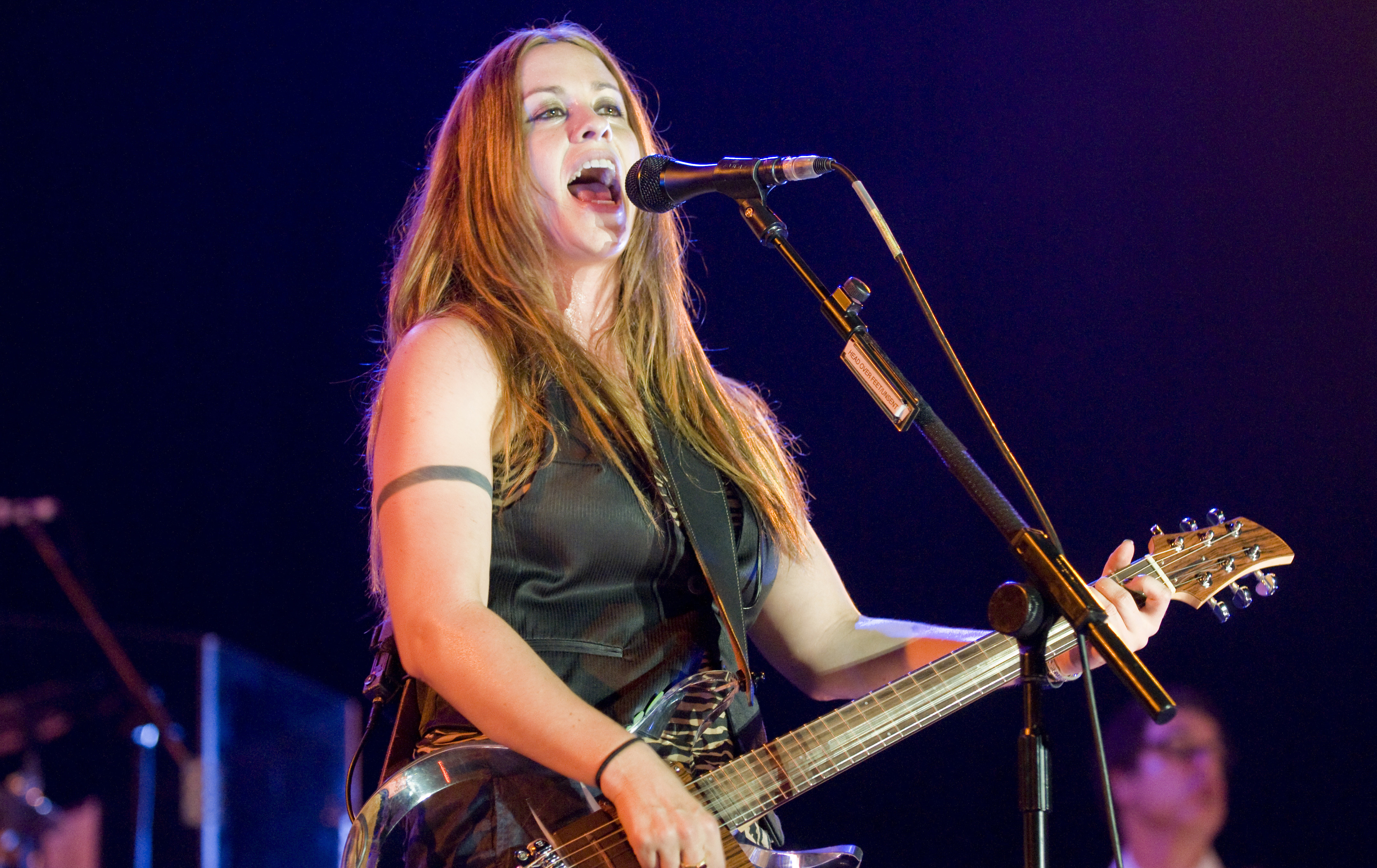 Alanis Morissette. Performing a live concert in the Espacio Movistar, Barcelona, June 2008.